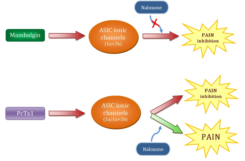 A brief summary of the effect of mambalgins